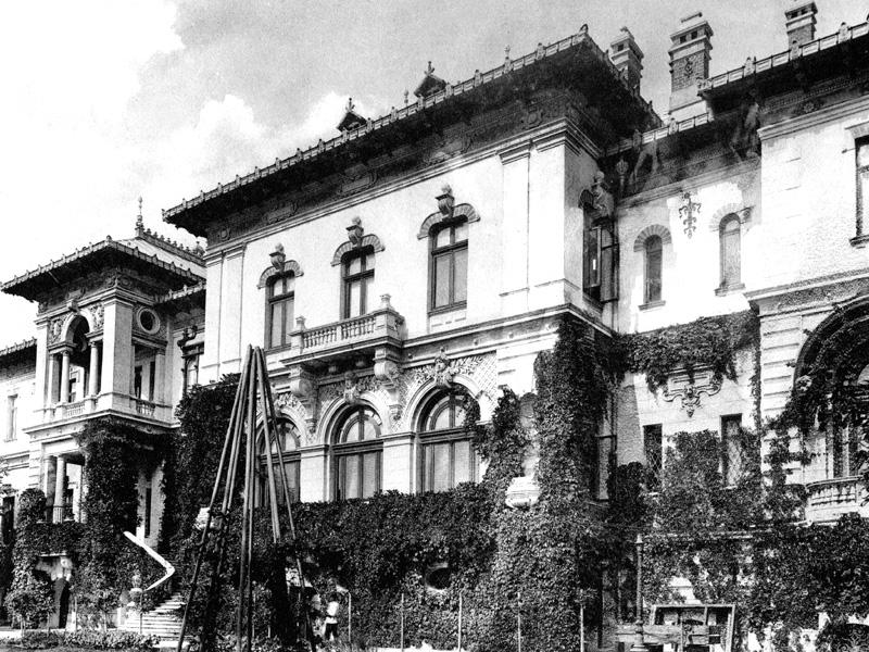 photograph of Bucharest Palatul Cotroceni